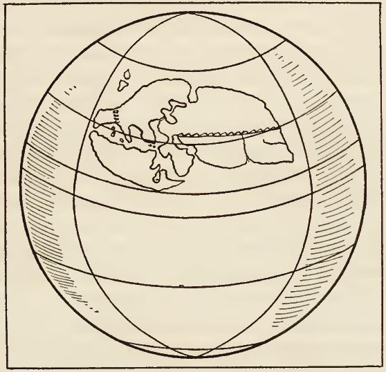 Earth_Globe_by_Strabon